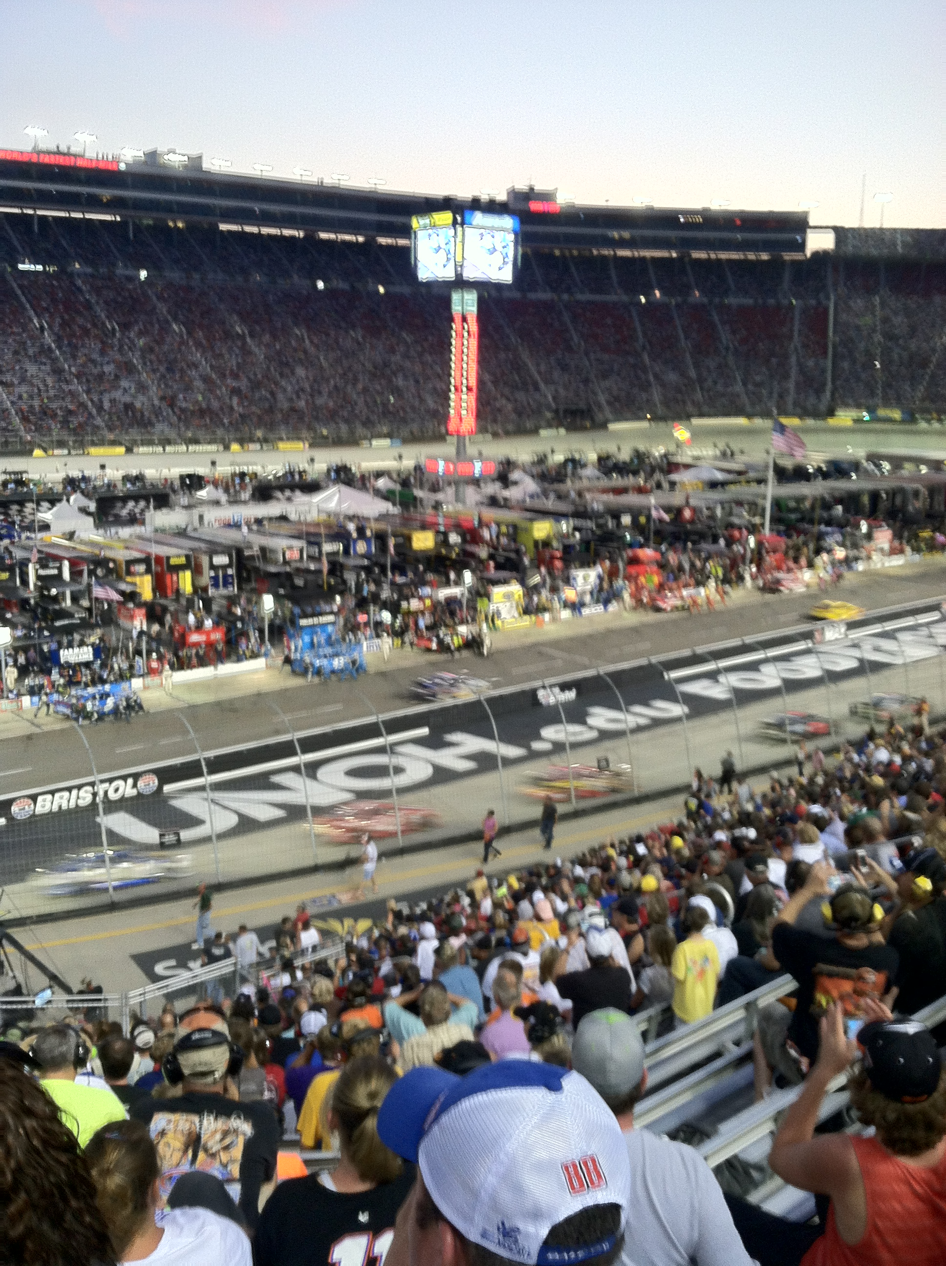 Cars pitting under caution.